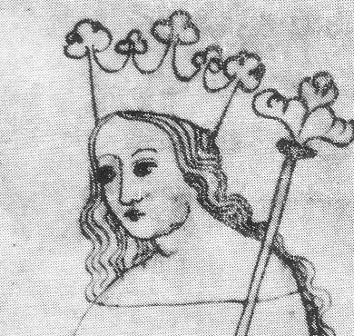 Elisabeth Přemyslovna